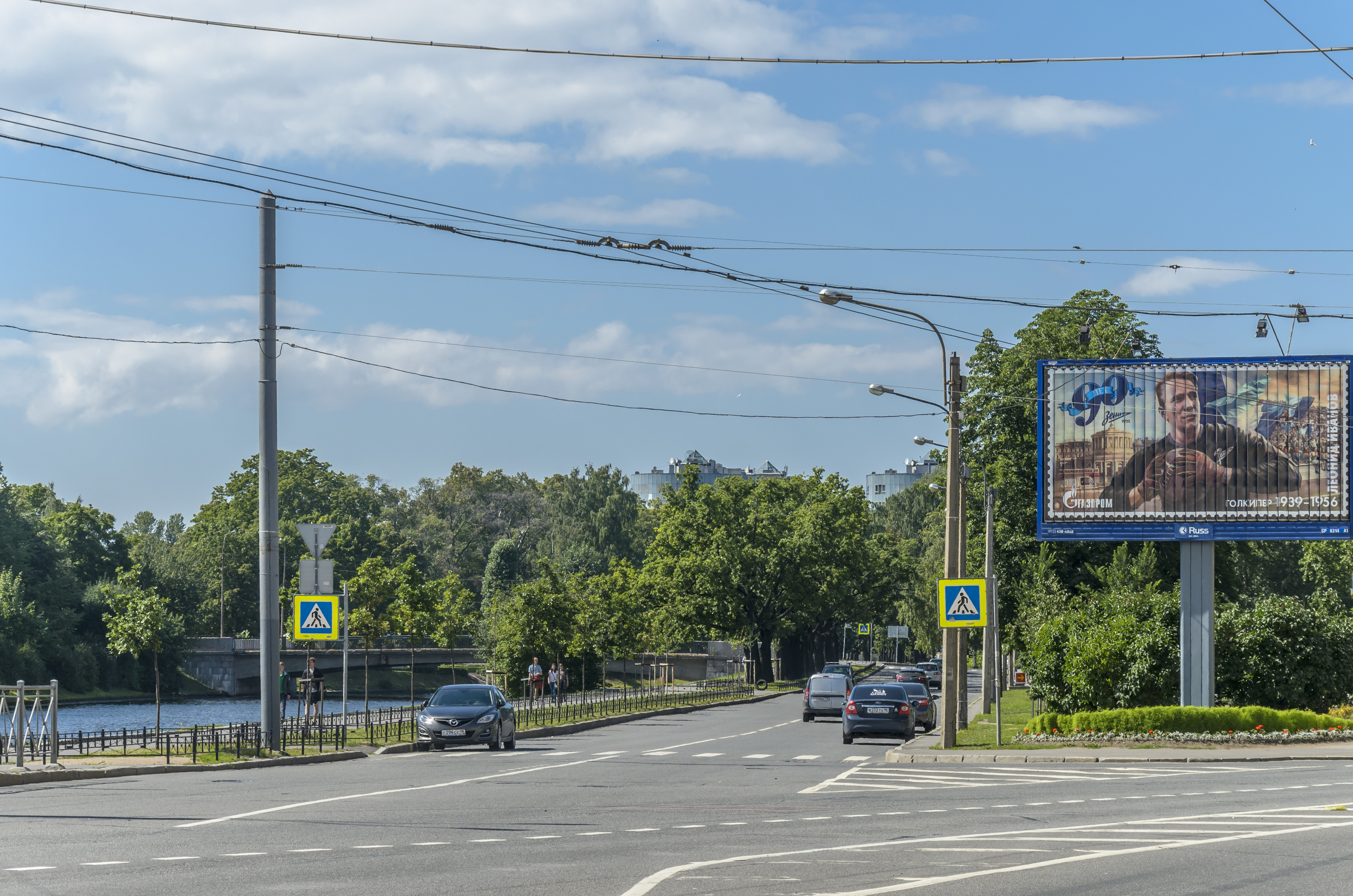 Zhdanovskaya Embankment in Saint Petersburg